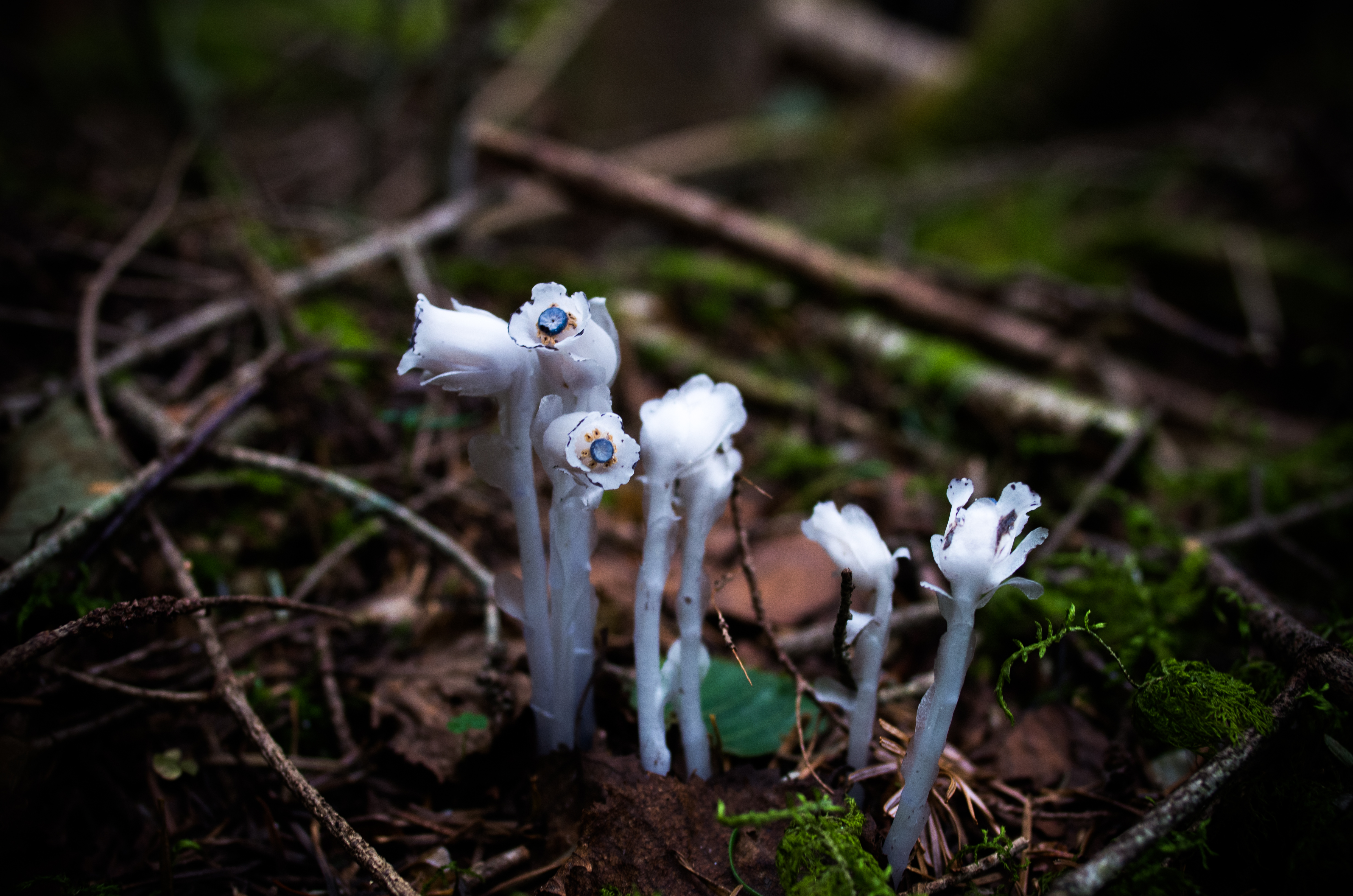 Monotropastrum humile in Japan.